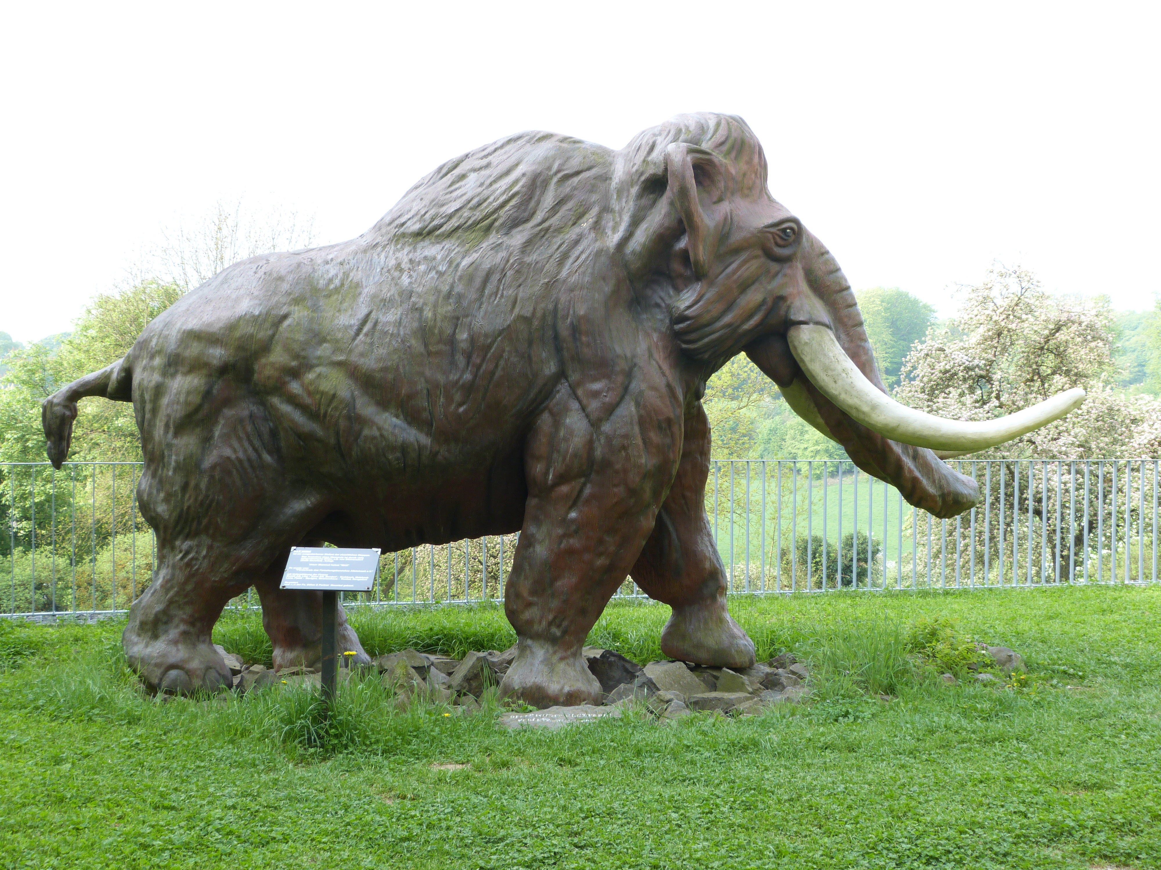 The mammoth scultpure, called Max, in outside Monrepos.